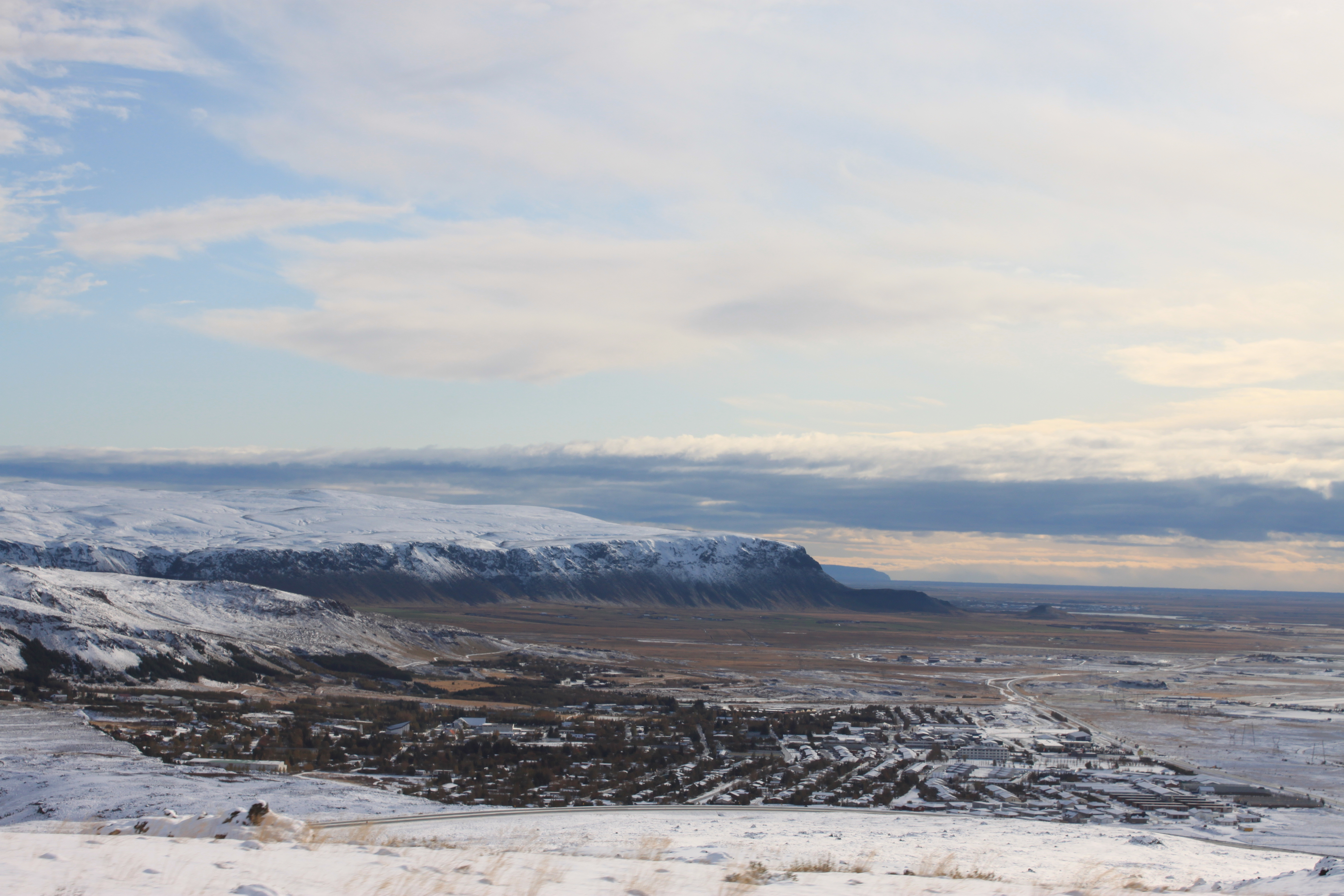 Taken in October 2009.